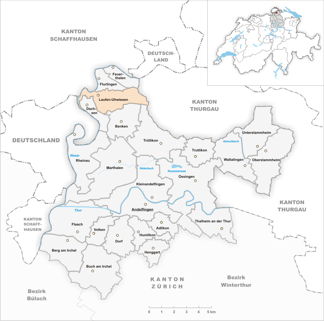 Municipality Laufen-Uhwiesen